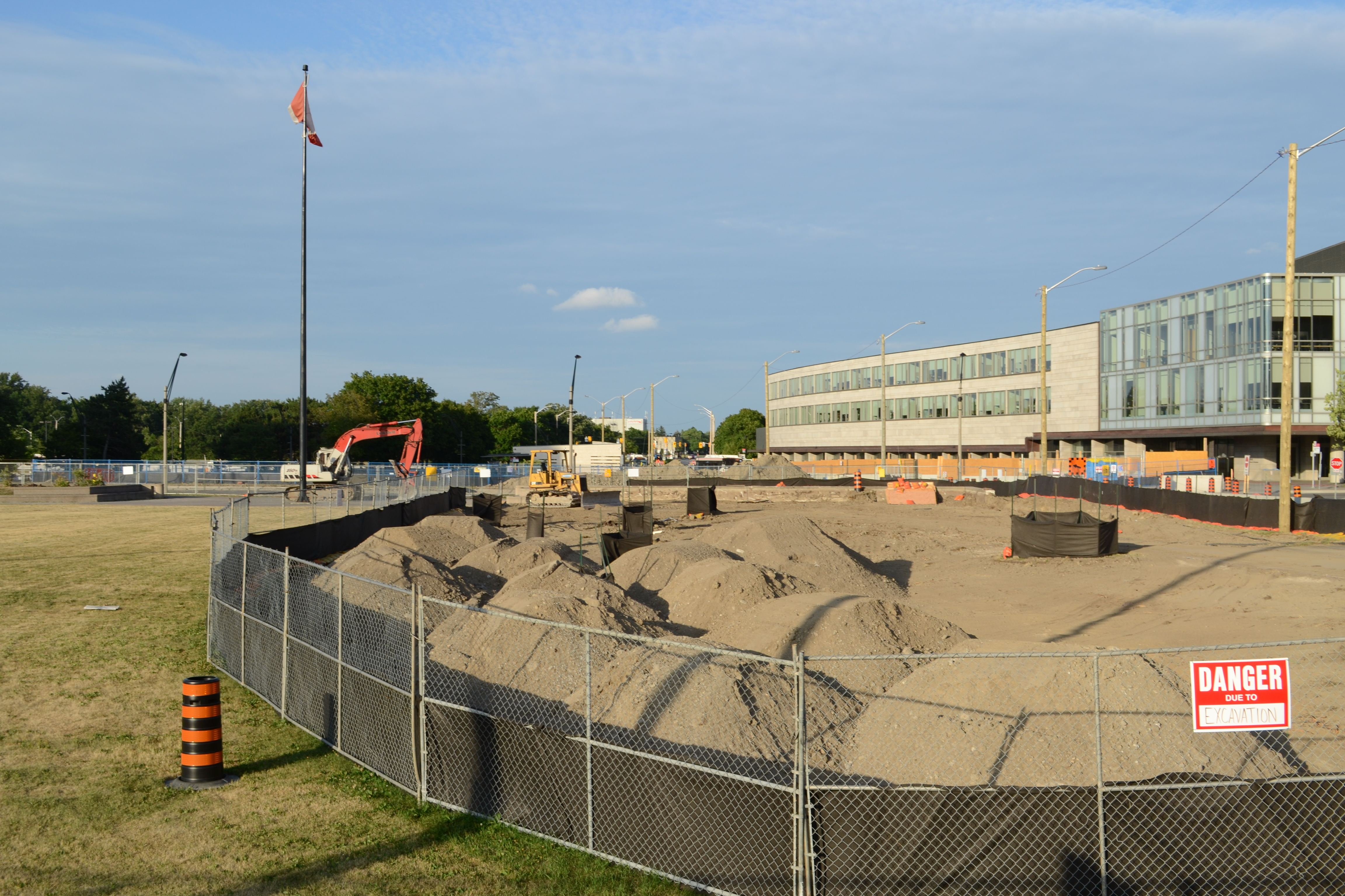 York University TTC Subway Construction.